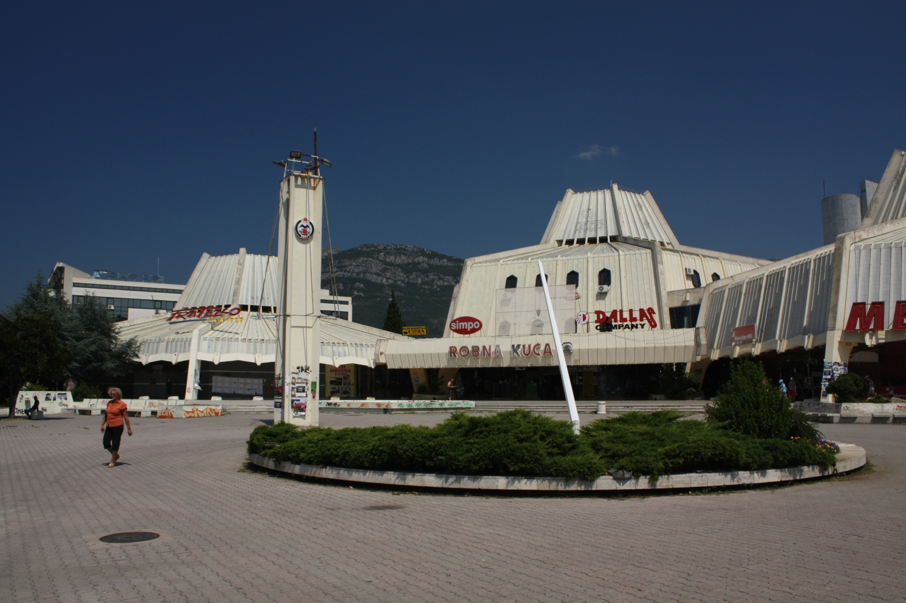 Bar, Montenegro - city centre